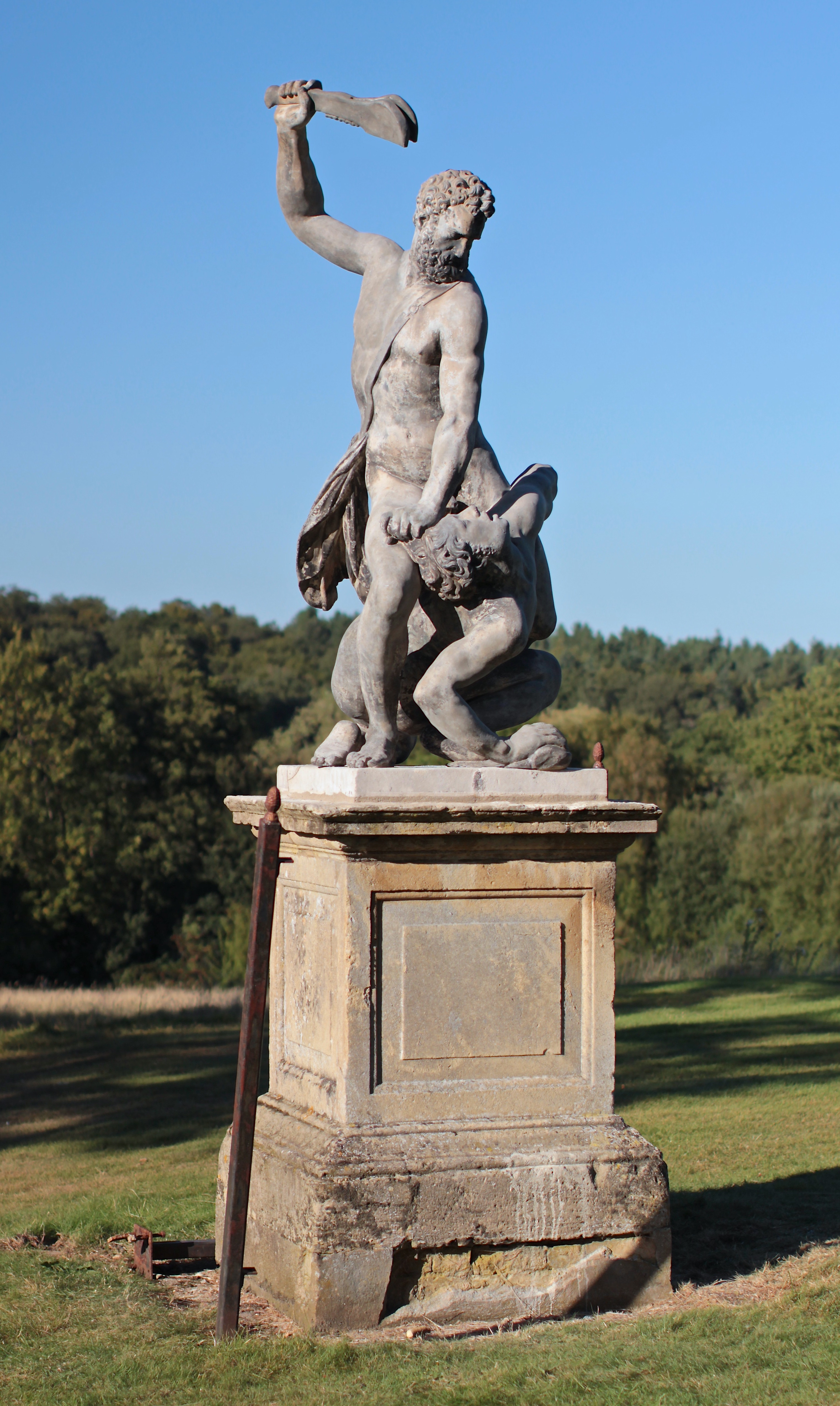 Statue depicting Samson Slaying a Philistine, on the North West end of the terrace at Trent Park House, Trent Park, Enfield. 18th century, possibly by John Cheere after Giambologna; brought to Trent Park from Stowe House, Bucks in the mid 1920s by Sir Philip Sassoon. Restored in 2012. Institute of Historic Building Conservation